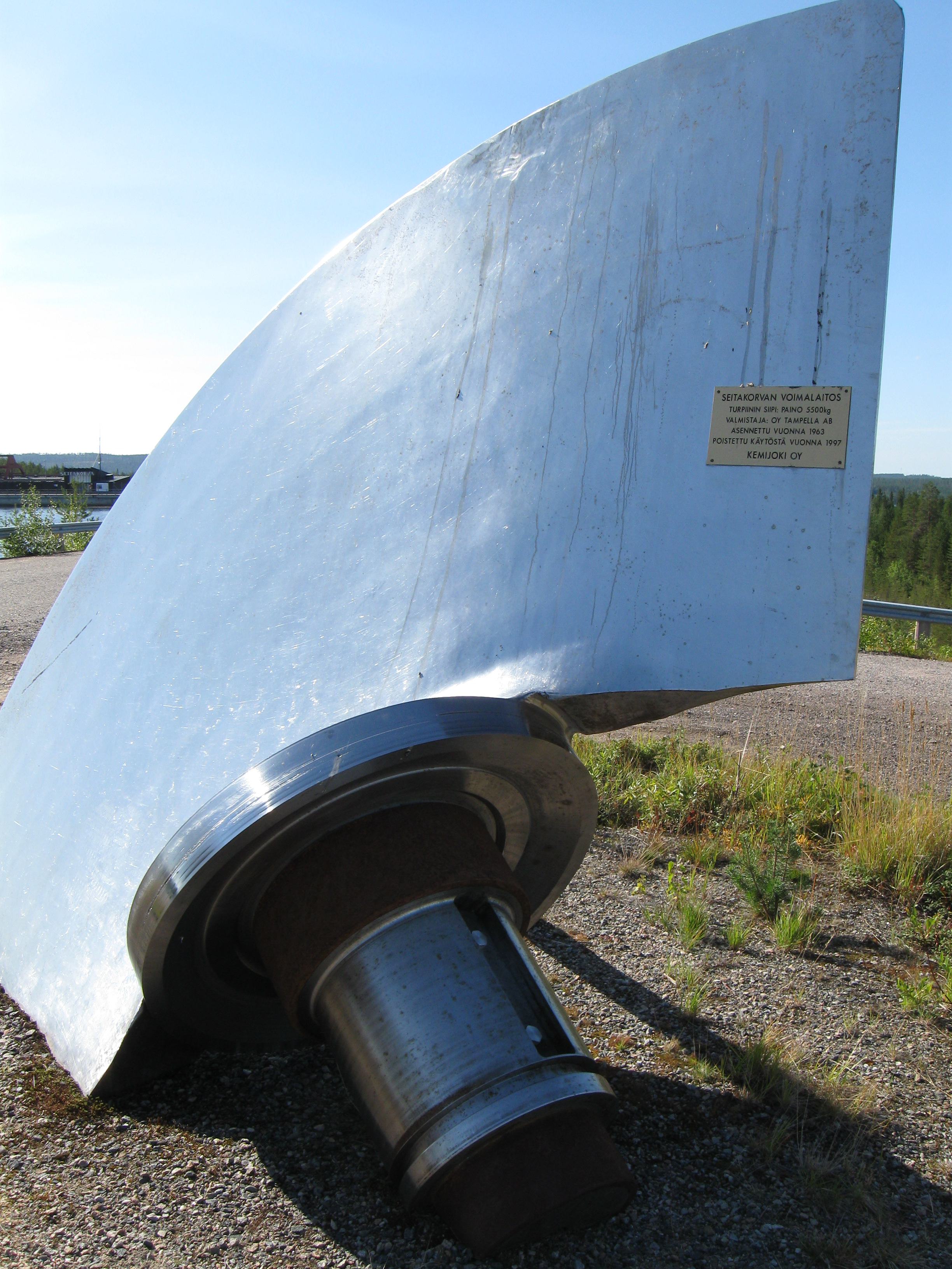 The former turbine wing of the Seitakorva power plant in the Kemijoki river in Kemijärvi, Finland.